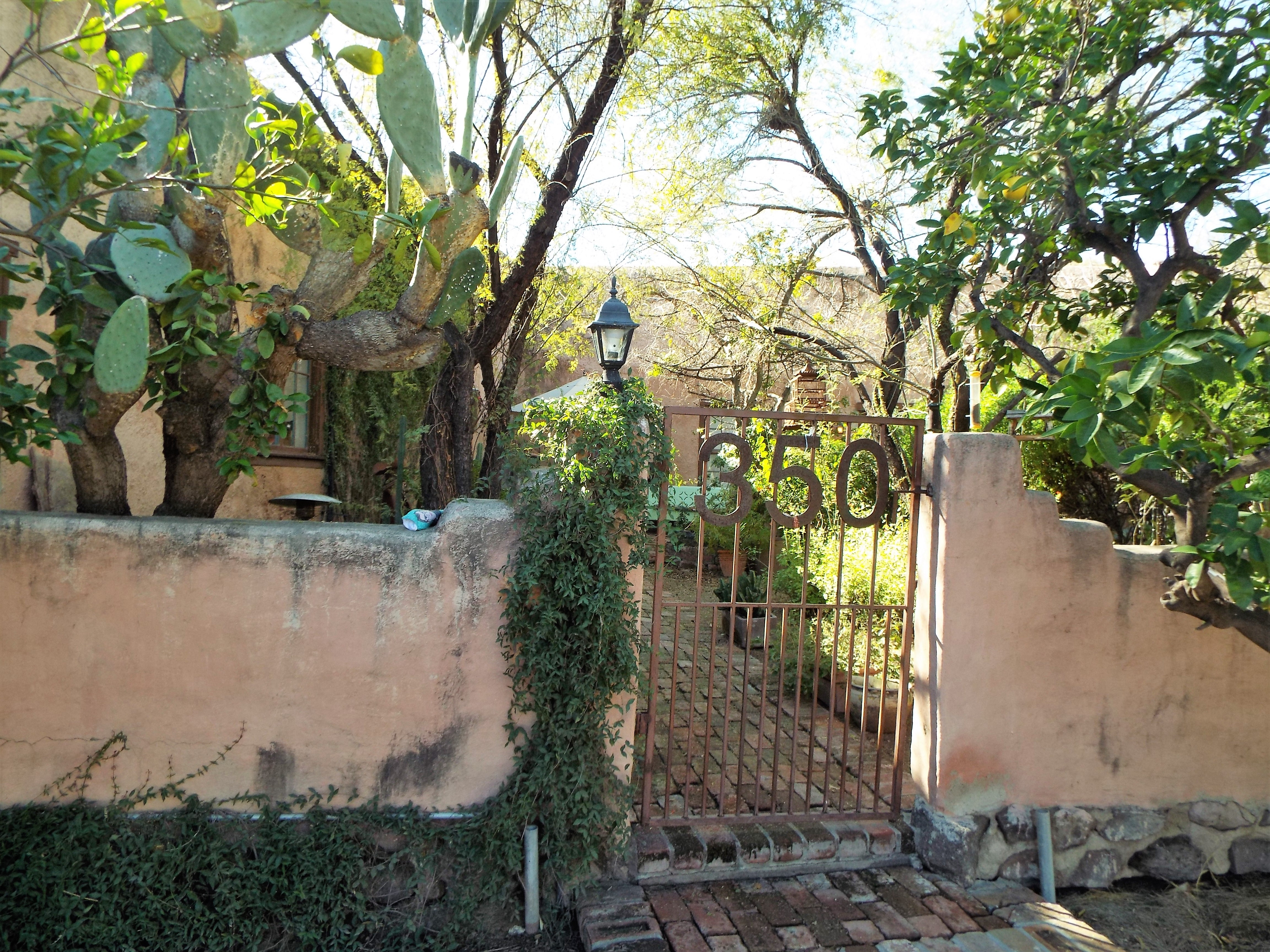 Historic Solomon Warner House.-1874 in Tucson, Arizona